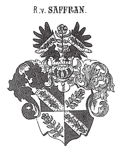 Coat of Arms of Saffran (Knights)